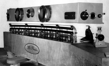 Historical McPherson Grazing Incidence Spectrometer -- We, McPherson, made and own this image and hereby release it under CC By-SA 3.0 License.